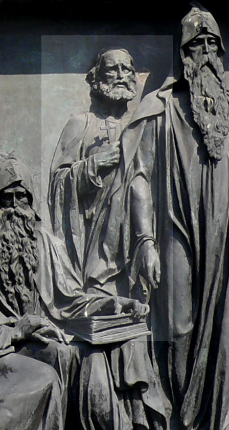 Kuksha Pechersky on the Monument «Millennium of Russia» in Veliky Novgorod